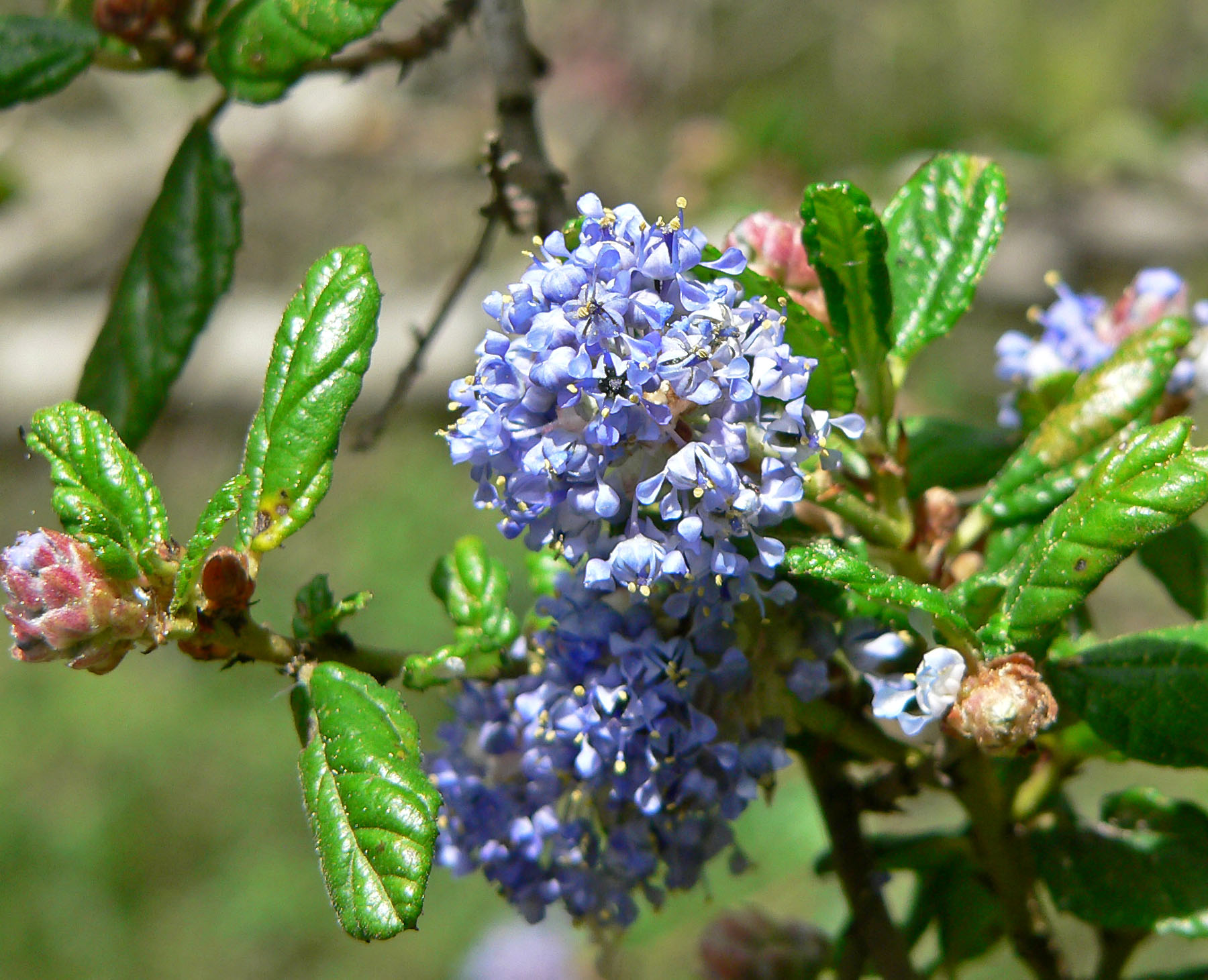 Photo of Ceanothus impressus var. nipomensis at the Regional Parks Botanic Garden, Berkeley, California